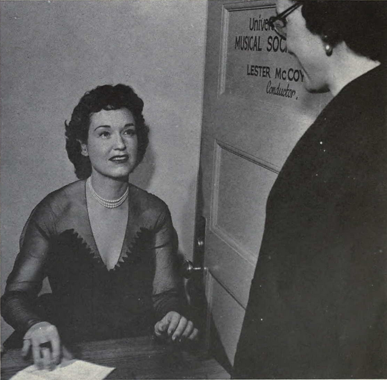 Photograph of Risë Stevens during a visit to Hill Auditorium at the University of Michigan This work is in the public domain because it was published in the United States between 1923 and 1963 and although there may or may not have been a copyright notice, the copyright was not renewed. Unless its author has been dead for the required period, it is copyrighted in the countries or areas that do not apply the rule of the shorter term for US works, such as Canada (50 pma), Mainland China (50 pma, not Hong Kong or Macao), Germany (70 pma), Mexico (100 pma), Switzerland (70 pma), and other countries with individual treaties. See Commons:Hirtle chart for further explanation. This work is in the public domain in the United States because it was published in the United States between 1923 and 1977 without a copyright notice. See Commons:Hirtle chart for further explanation. Note that it may still be copyrighted in jurisdictions that do not apply the rule of the shorter term for US works (depending on the date of the author's death), such as Canada (50 p.m.a.), Mainland China (50 p.m.a., not Hong Kong or Macao), Germany (70 p.m.a.), Mexico (100 p.m.a.), Switzerland (70 p.m.a.), and other countries with individual treaties.